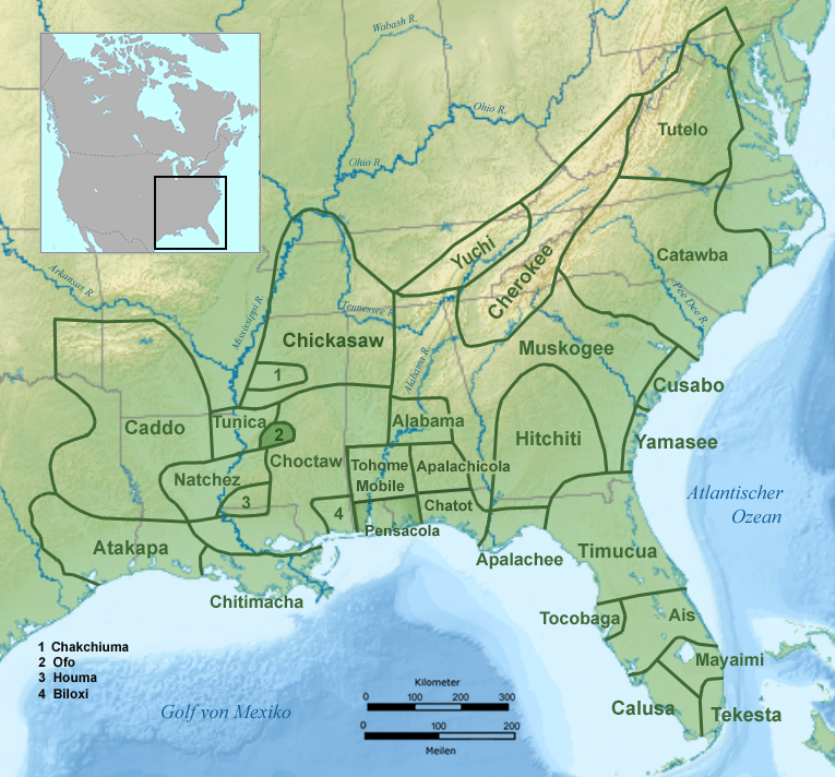 Tribal territory of Ofo during seventeenth century